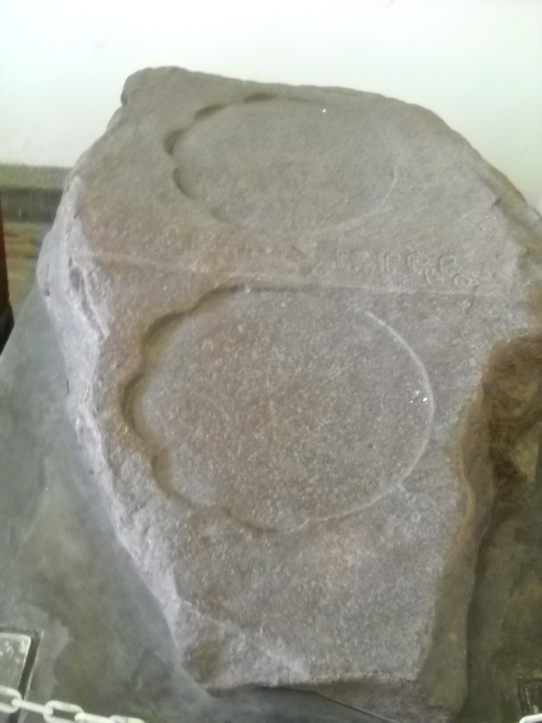 Prasasti Kebon Kopi (Kebon Kopi Stele) in History Museum of Jakarta.